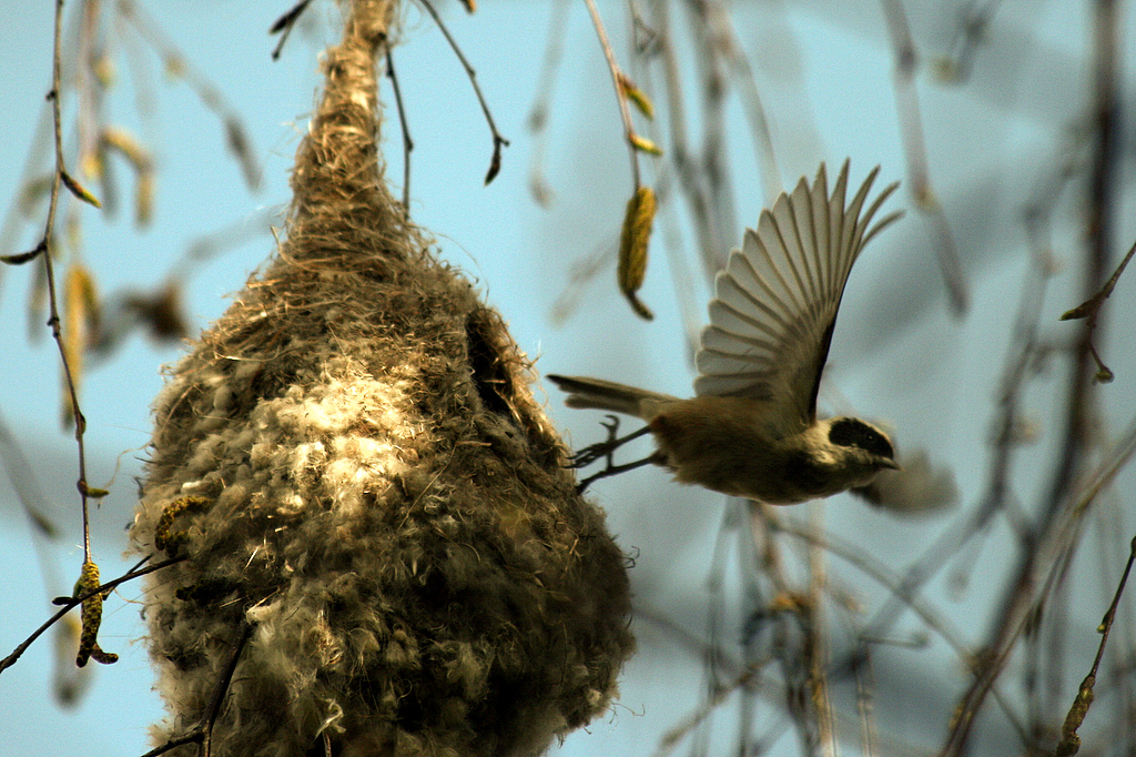 European Penduline Tit